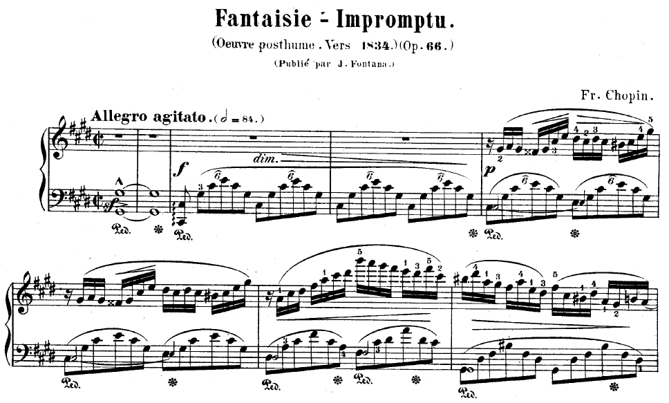 Snippet of Fantasie-Impromptu